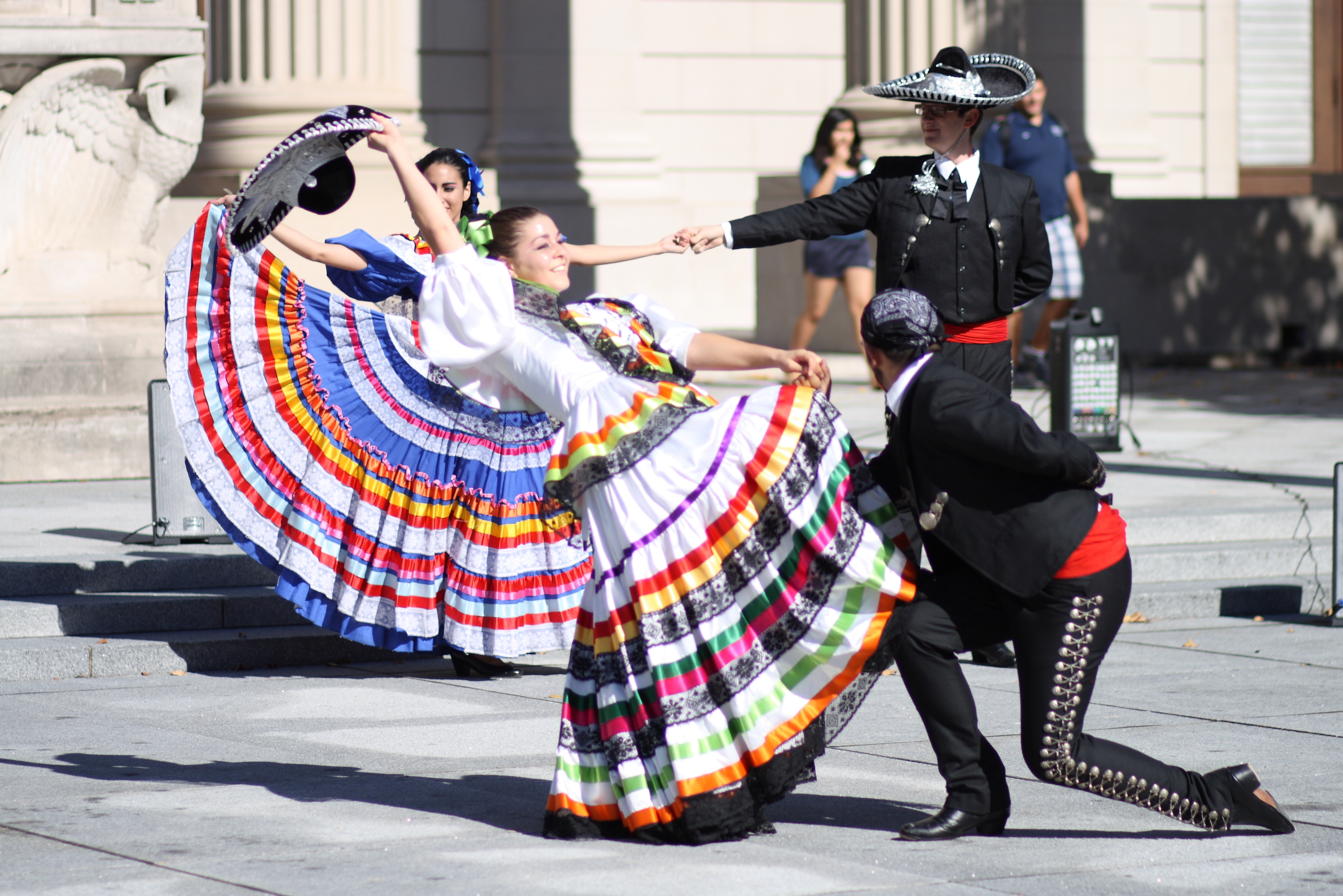 A group of young dancers performing Mexican baile folklórico outdoors at Yale University